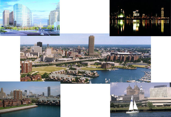 The picture that appears on the Buffalo FBI Divisions main page